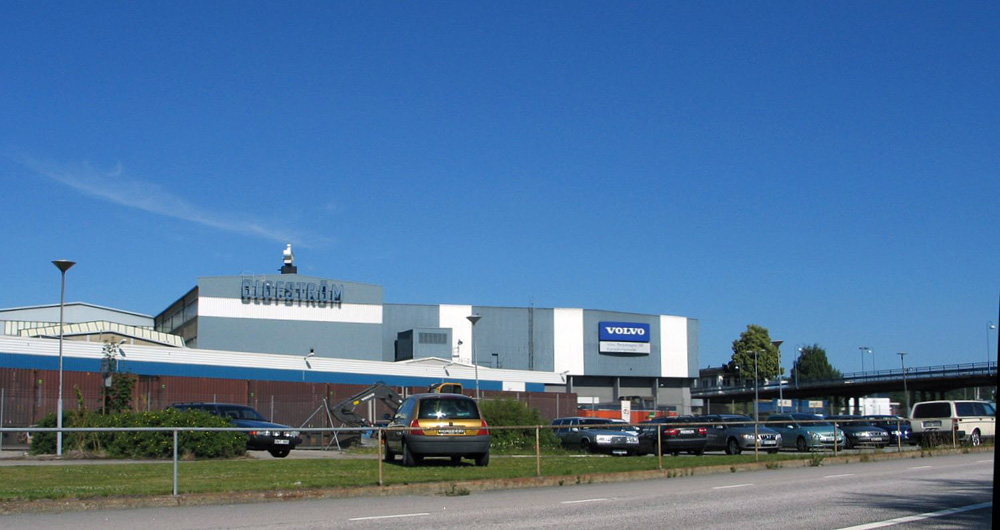 Volvo factory in Olofström, Sweden